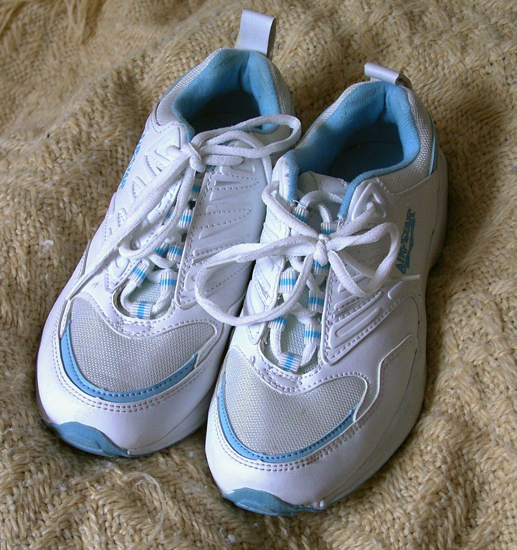 Sportshoes for Indooruse